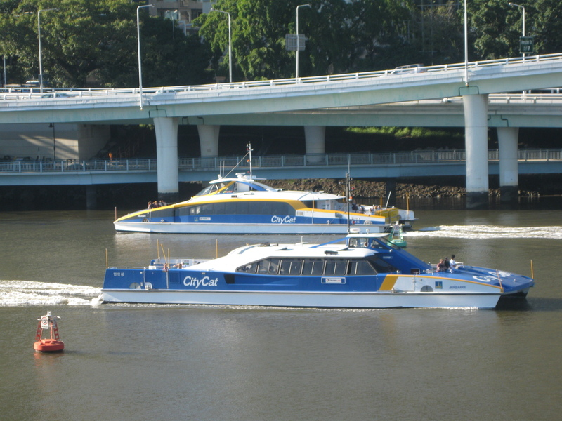 Brisbane's CityCats as seen from South Bank Parklands.